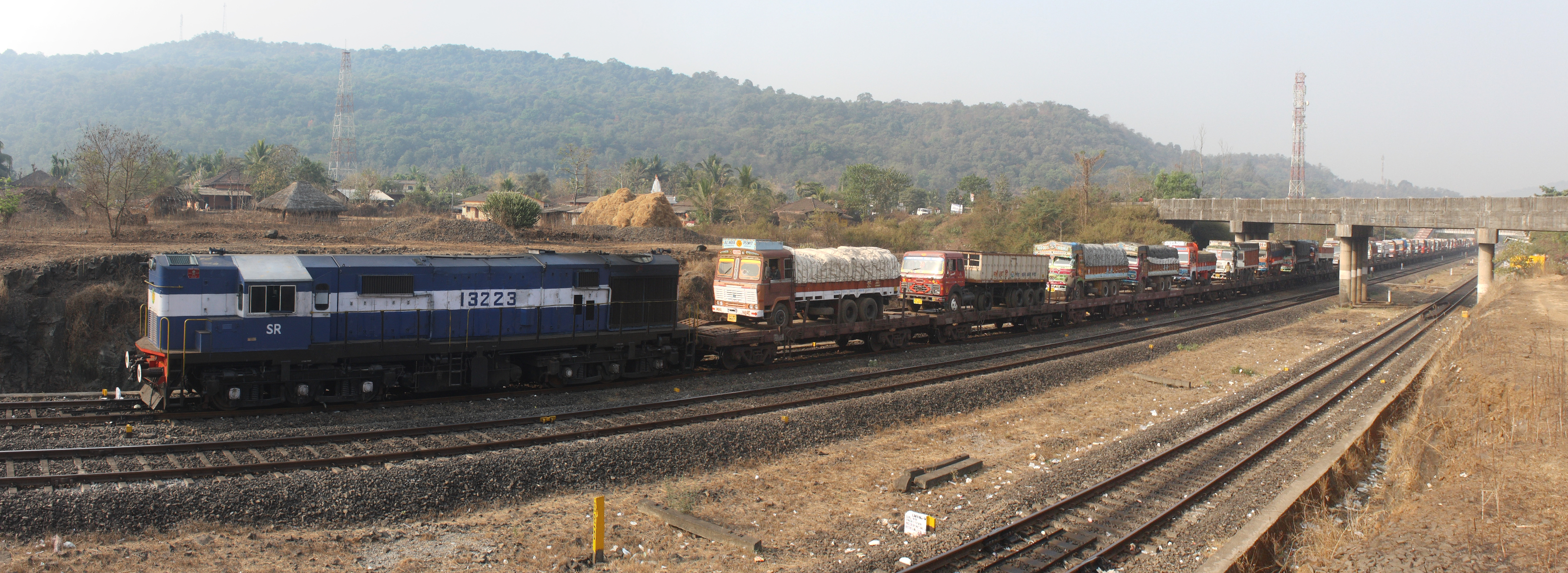 A northbound Roro train in Khed (India) railway station awaiting clearance for departure towards Mumbai. As Kokan Railway is a single track line this train has to wait for another train to clear the track section between Khed and the next station.